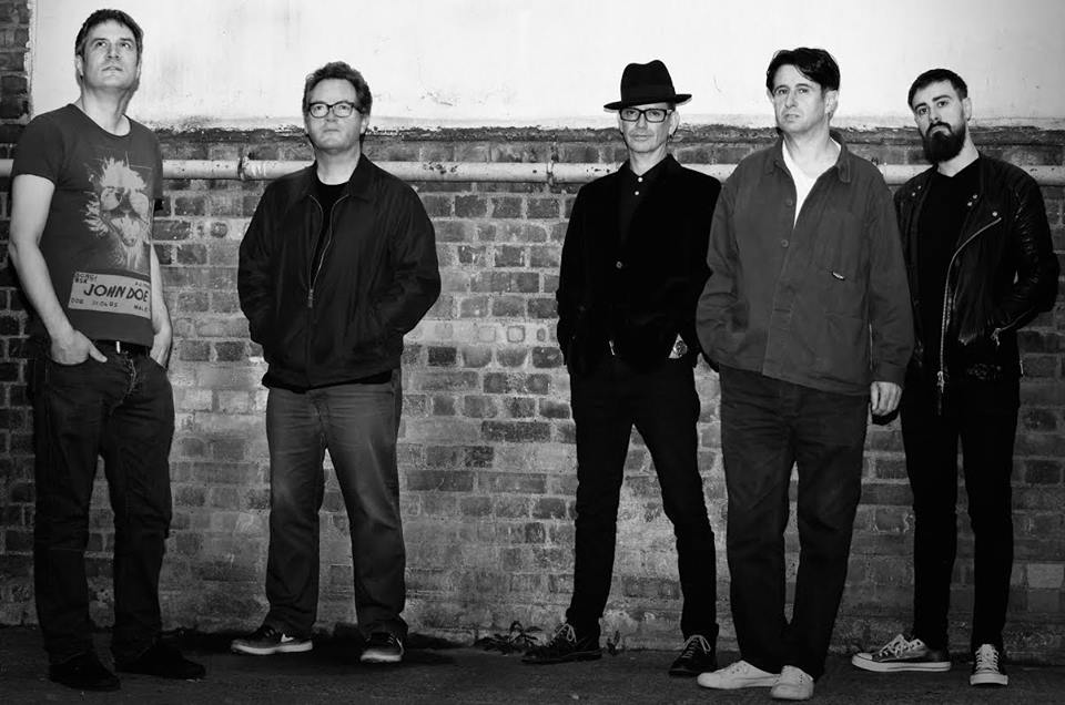 Band Of Holy Joy, October 2016. Photograph by Inga Tillere.